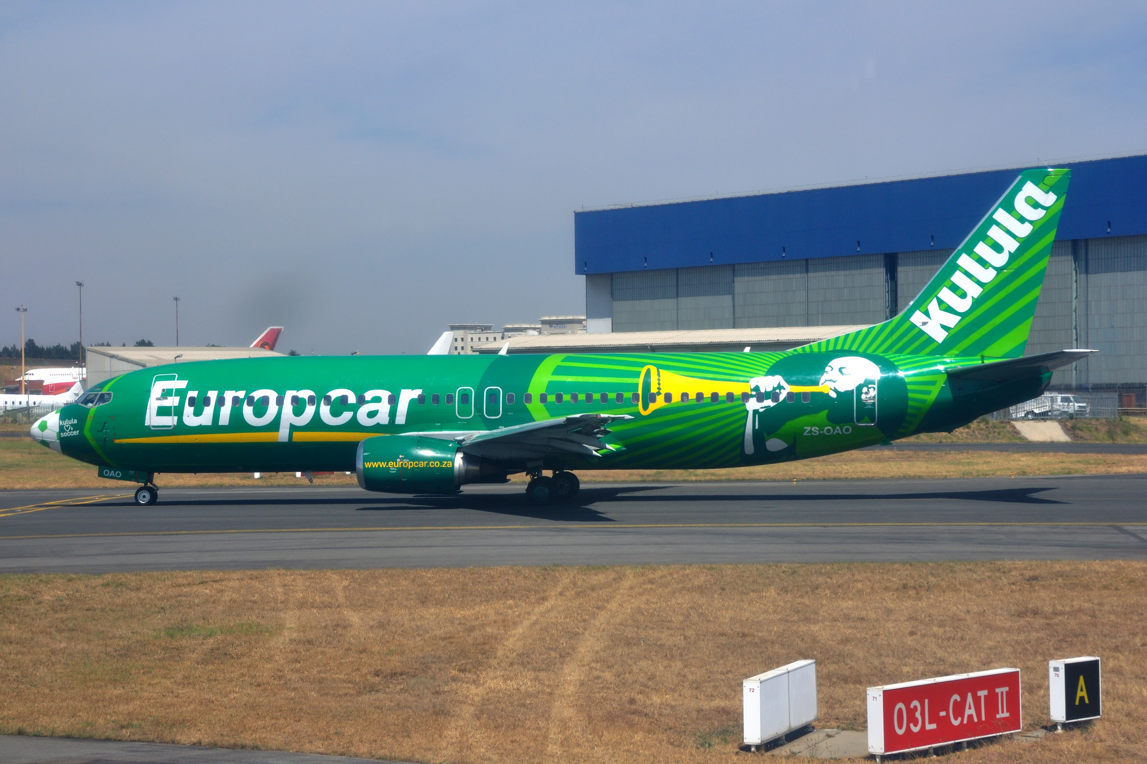 South Africa, Kulula's Boeing 737-4S3 taxiing to runway 3L at O.R. Tambo International Airport in Johannesburg